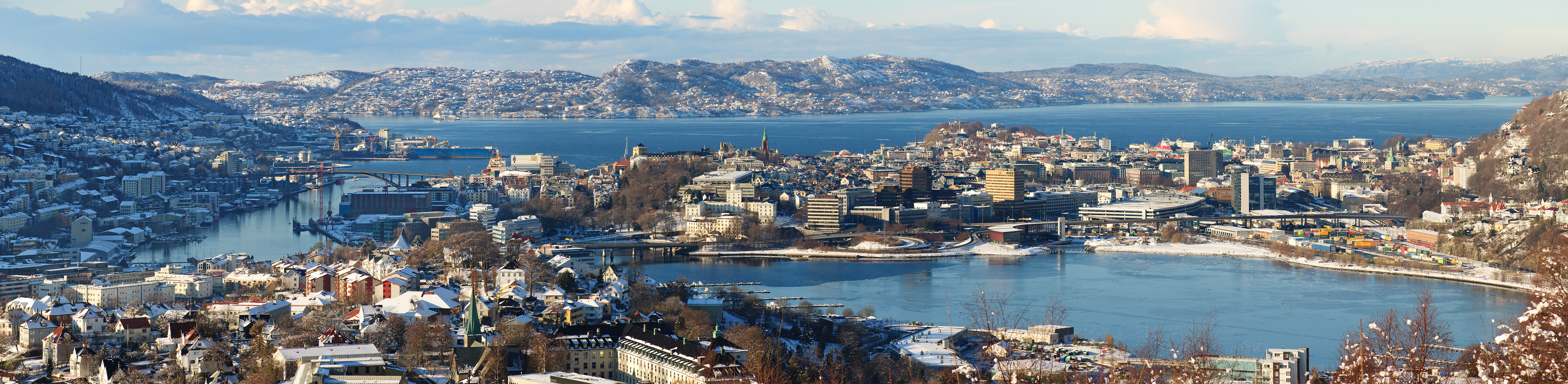 Panorama of the city centre of Bergen, Norway, and some of its surroundings. The island of Askøy is in the background.